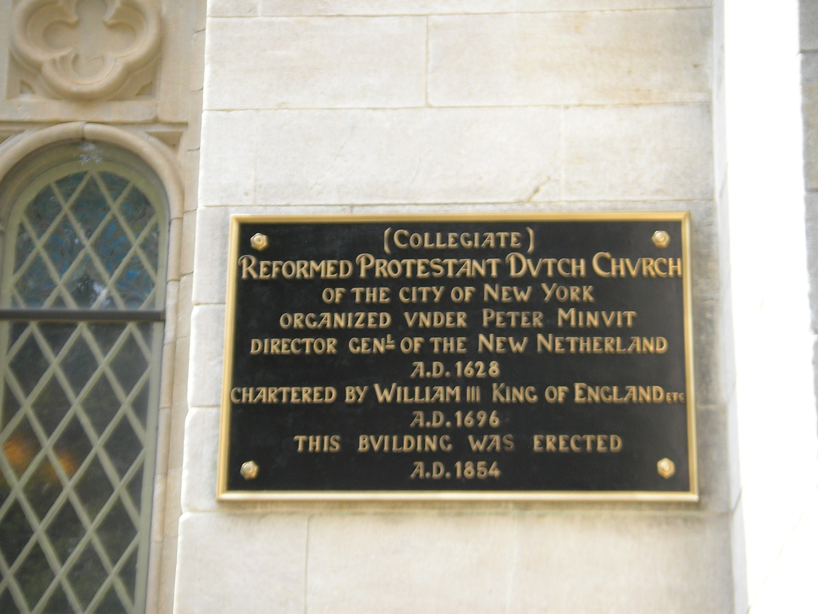 The Marble Collegiate Church on 5th Avenue and 29th Street in New York City.